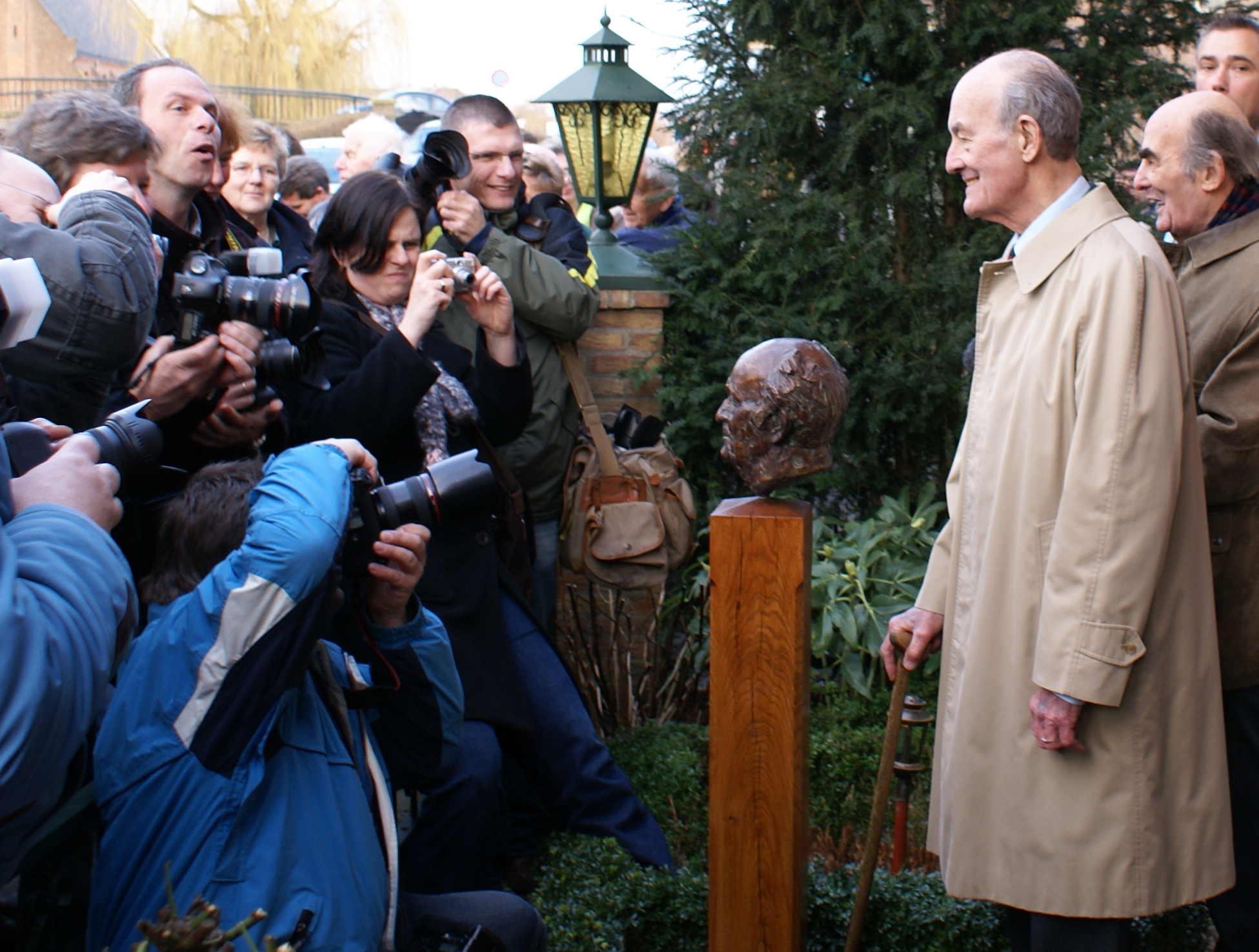 Wim Aantjes, Dutch politician